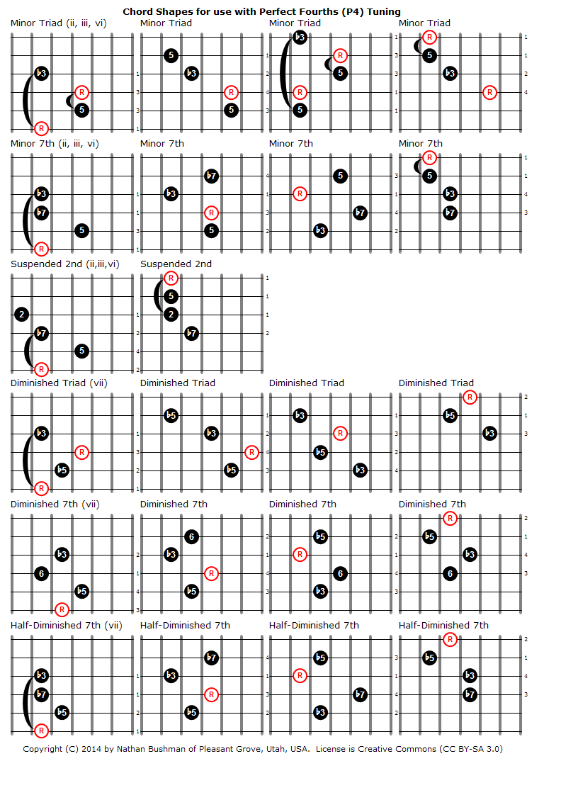 Handy chord shapes for use with Perfect Fourths Tuning (aka "All Fourths Tuning" and "P4 Tuning"). These chord shapes can be transposed both vertically and horizontally anywhere on the guitar neck.